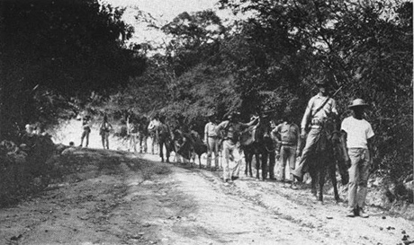 United States Marines on patrol in 1915 during the occupation of Haiti. A Haitian guide is leading the party.